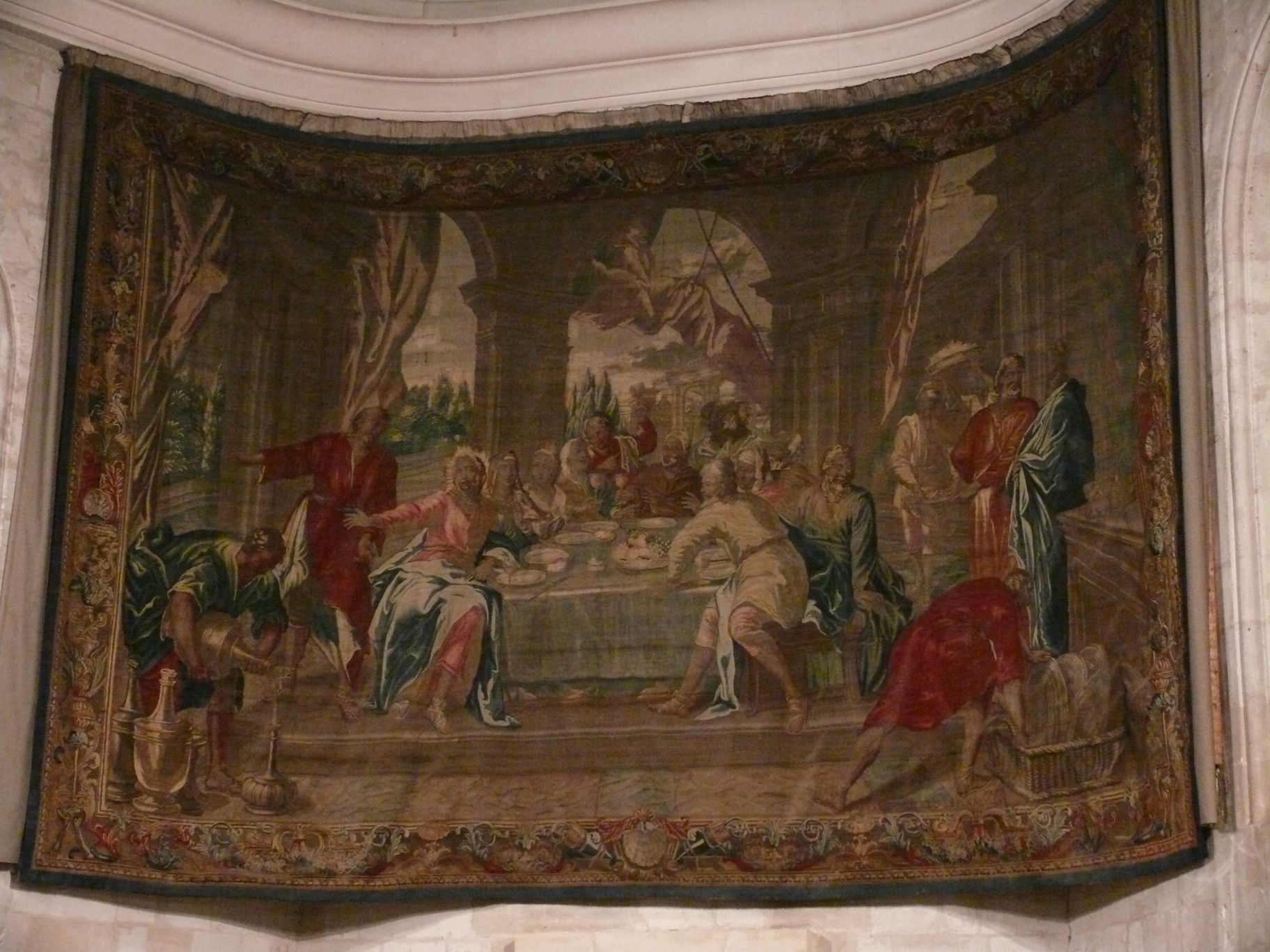 Saint-Pierre-en-Antioche's church of Villeneuve-d'Ascq (Nord, France).